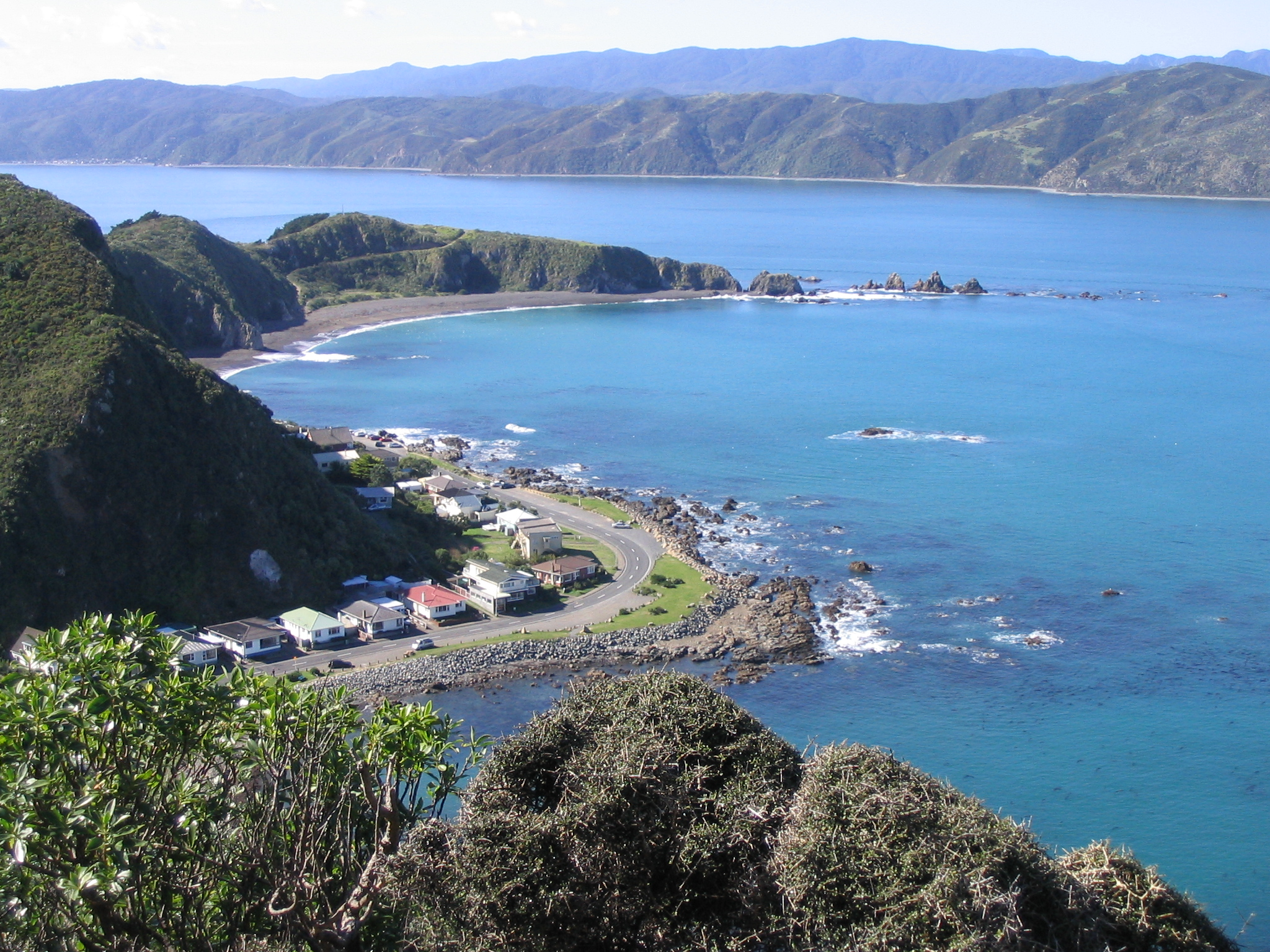 View of Point Dorset from above Breaker Bay on the Miramar Peninsula. Photo taken by Sendervictorius April 2005